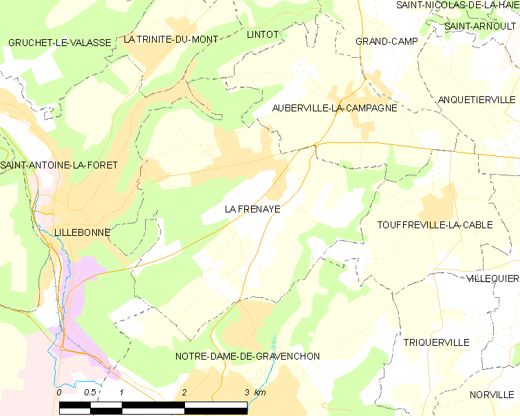 Map of French municipality La Frénaye